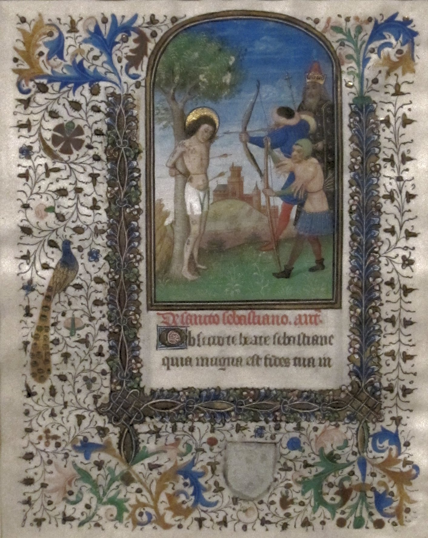 The Martyrdom of Saint Sebastian, leaf from a Book of Hours, c. 1455, possibly French, tempera and gold leaf on vellum, Honolulu Academy of Arts